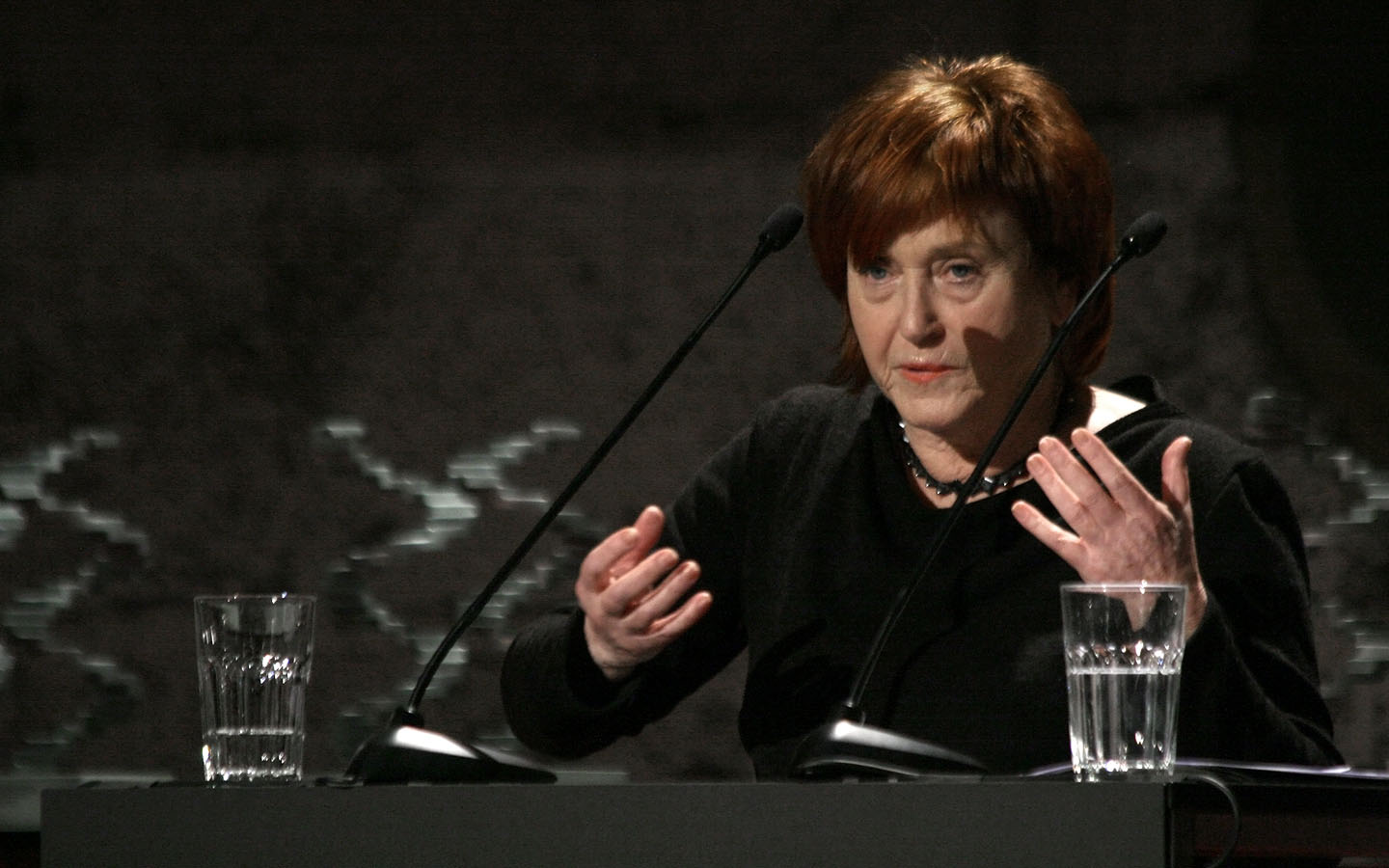 Valie Export, Austrian Film Awards 2012 (Vienna).